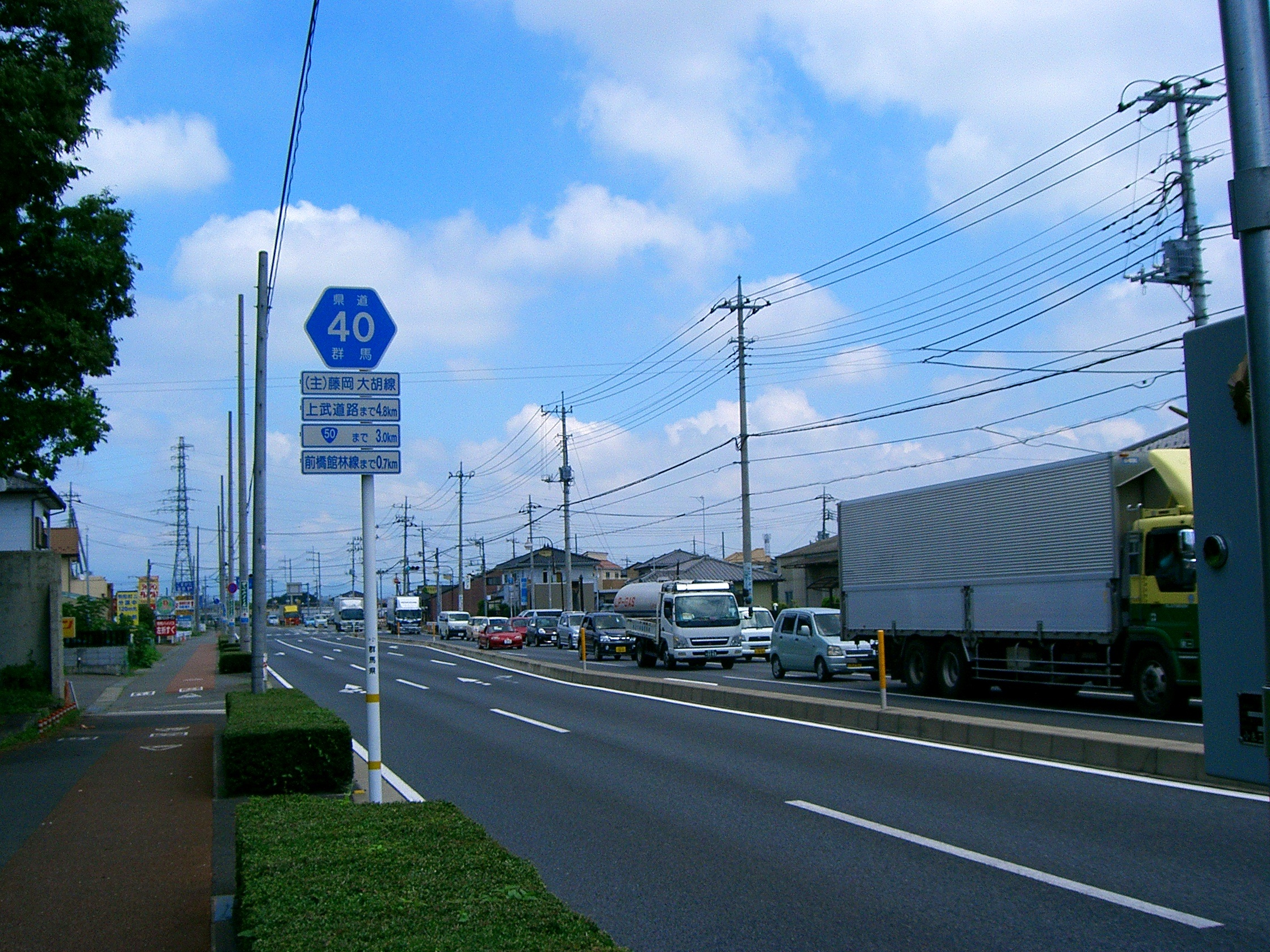 Gunma prefectural road 40 Fujioka-Ogo line. Looking northeast from Komagata-cho intersection, Maebashi city